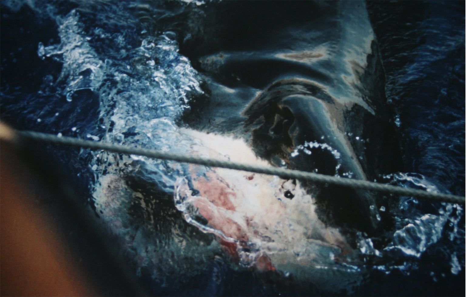 A great white shark at Isla Guadalupe, Mexico got himself between the boat and the cage. Neither people inside the cage nor shark were hurt. The picture is a digital copy of my old film picture(a picture of a picture).